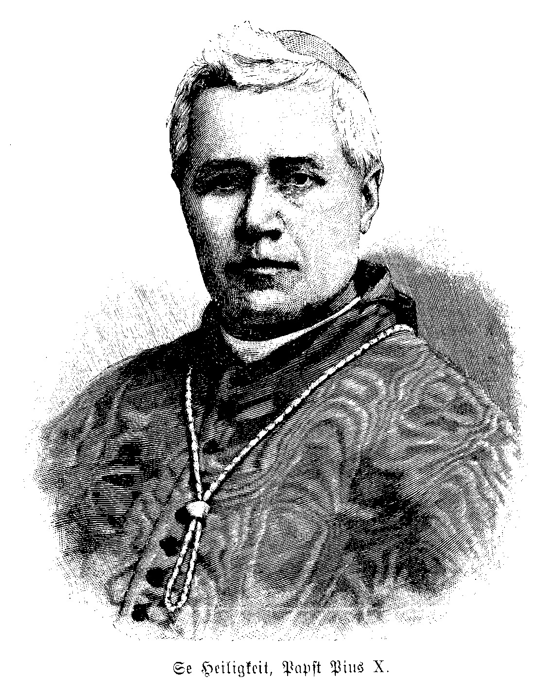 picture of pope Pius X. with inscription in German, from Catholic newspaper I scanned.